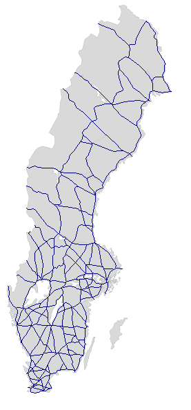 Sweden's network of National routes (roads), cities and road numbers not shown. Based on a blank map.